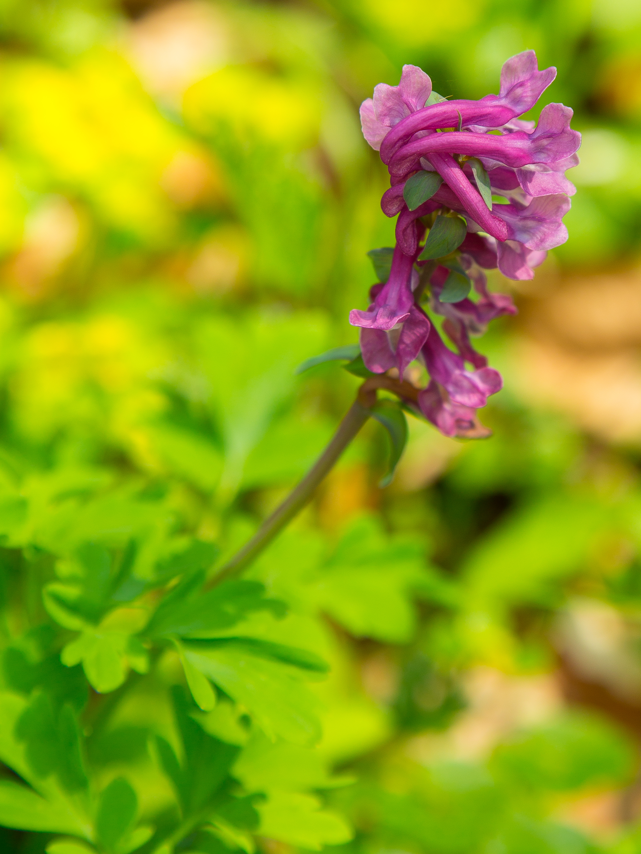 Hollowroot (Corydalis cava), a typical plant of the Freeden, a mountain and forest near Bad Iburg, Landkreis Osnabrück, Lower Saxony, Germany. Most parts of of the Freeden belong to the nature reserve Freeden (Naturschutzgebiet Freeden).